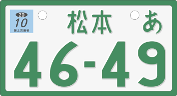 Japanese license plate for motorcycles (over 250cm³). The plate size is smaller than ordinary vehicle's plate. This sample license plate is registered to Matsumoto, Nagano.